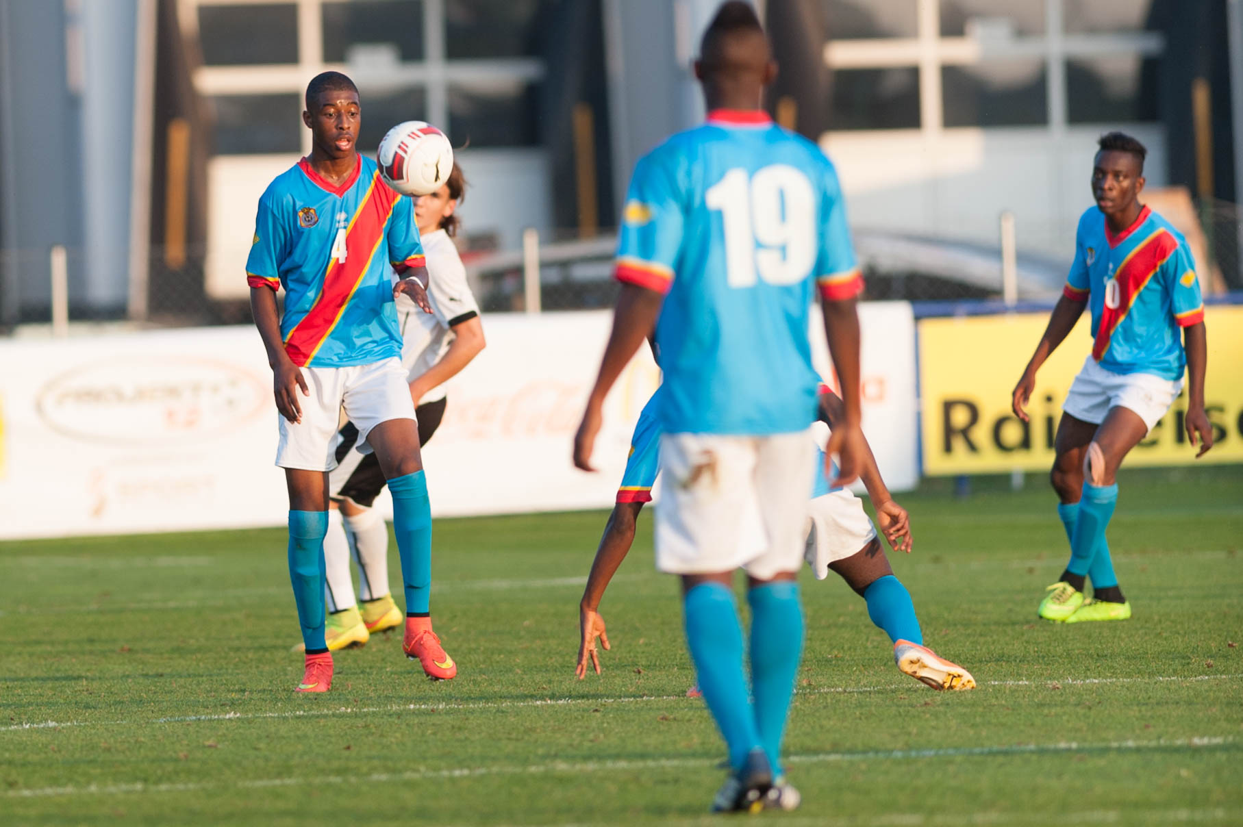 U21 Austria - DR Congo, 2014-10-12: Presnel Kimpembe